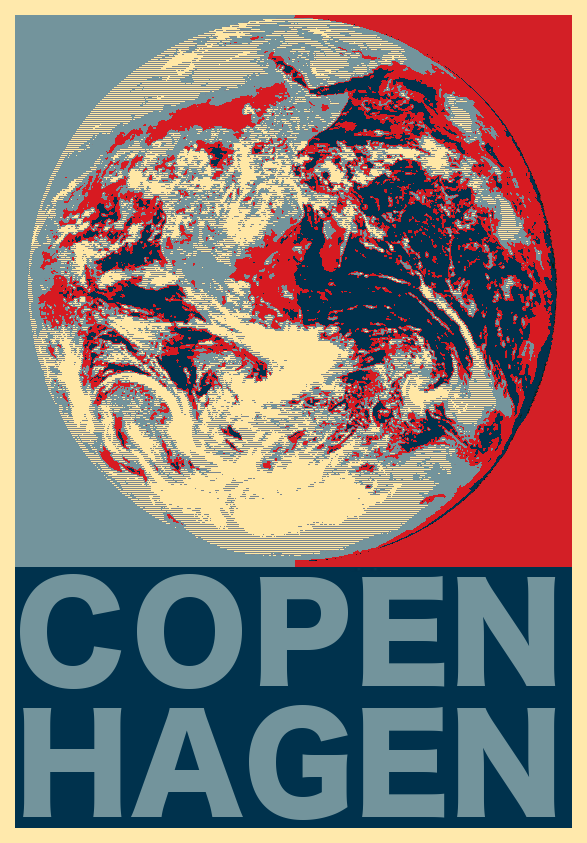 For the United Nations climate summit in Copenhagen, Decembre 7-18, 2009. Here's to some real progress!